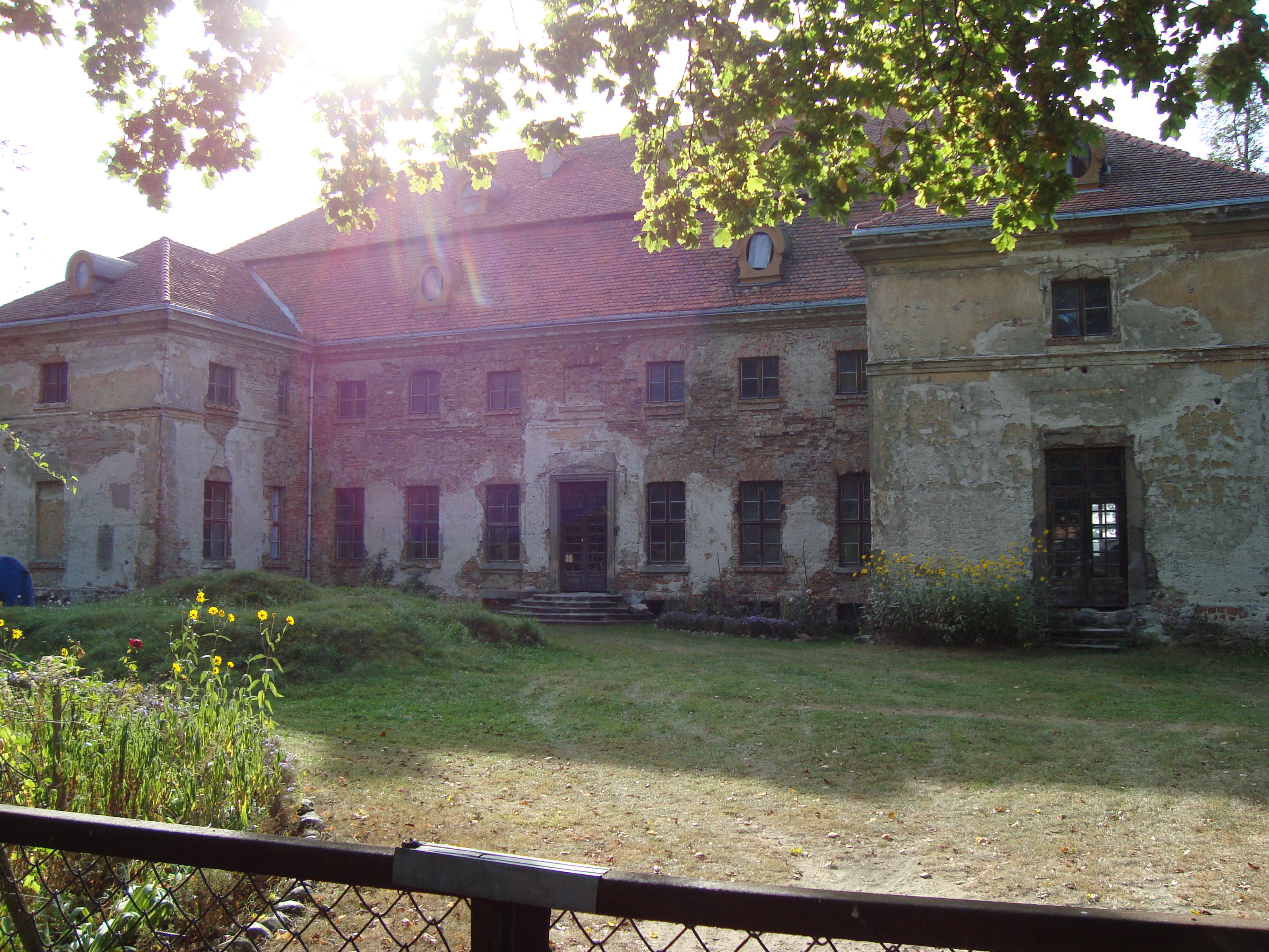 Zerkow - former palace.